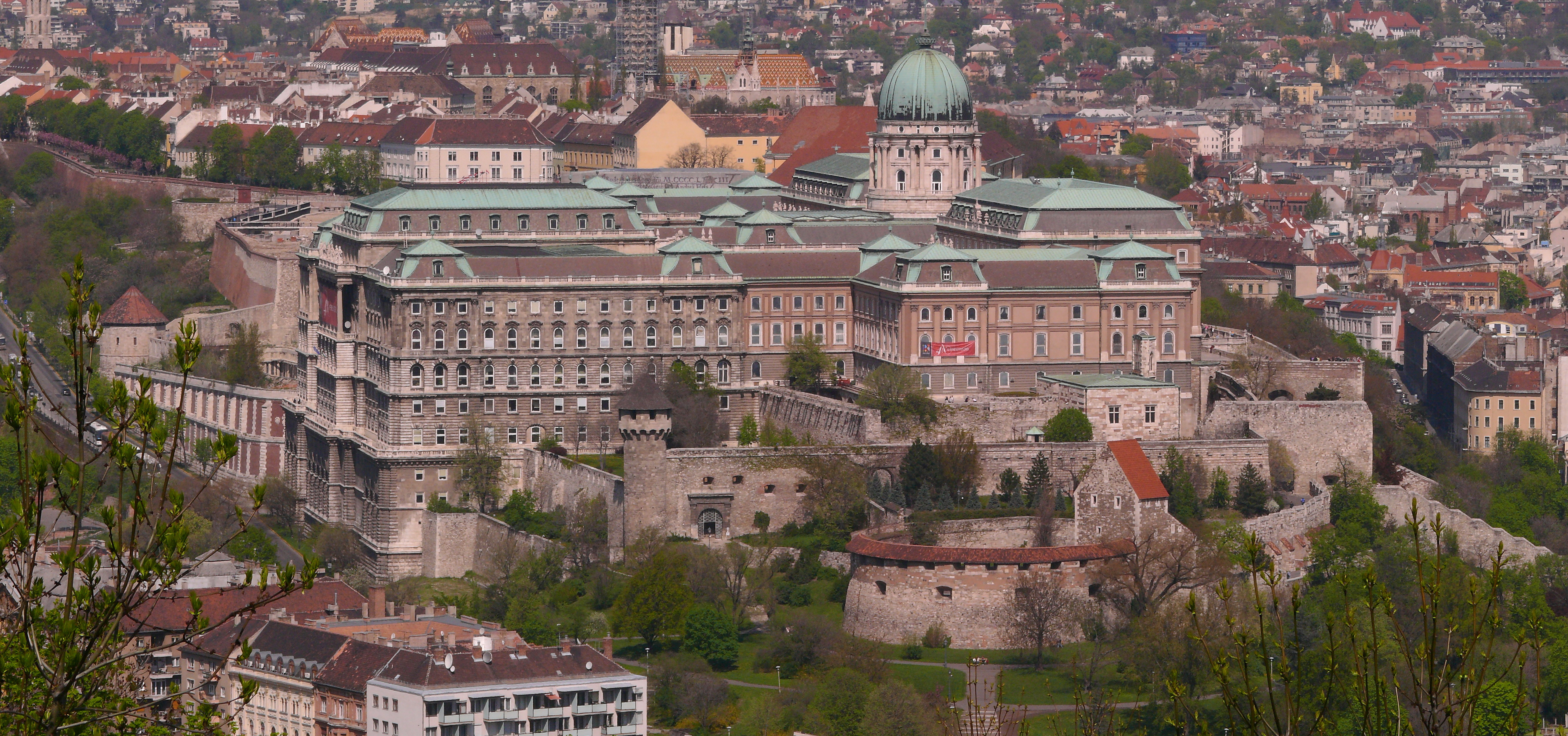 Buda Castle viewed from the Gellért Hill